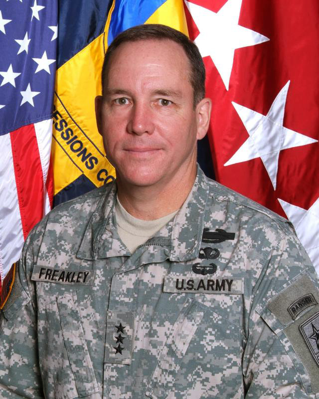 LTG Benjamin C. Freakley, commander, U.S. Army Accessions Command Subject wearing Army Combat Uniform